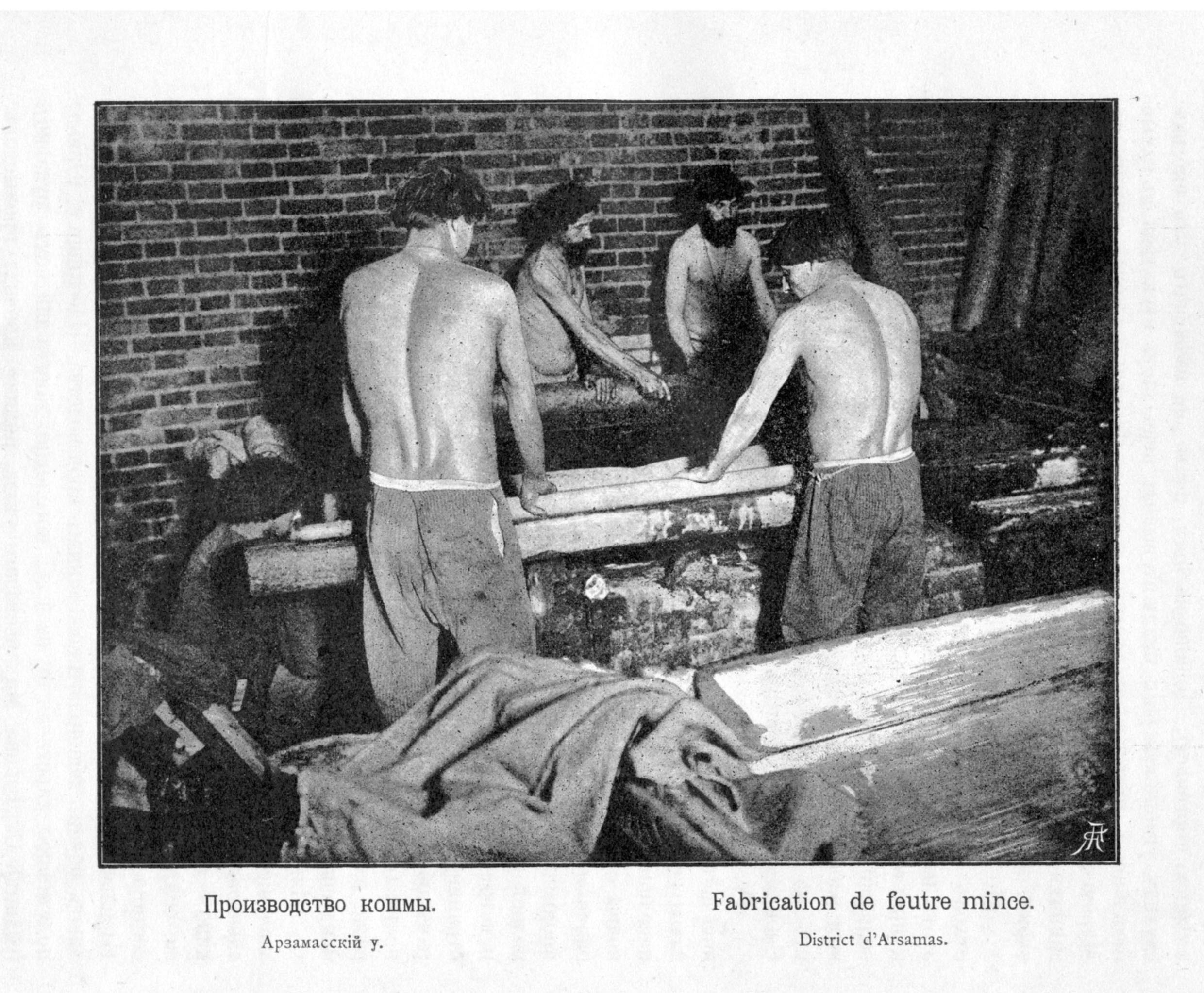 Handicraft Industry and Trades of Nizhegorodskaja gubernija. Arzsamas. XIX c.